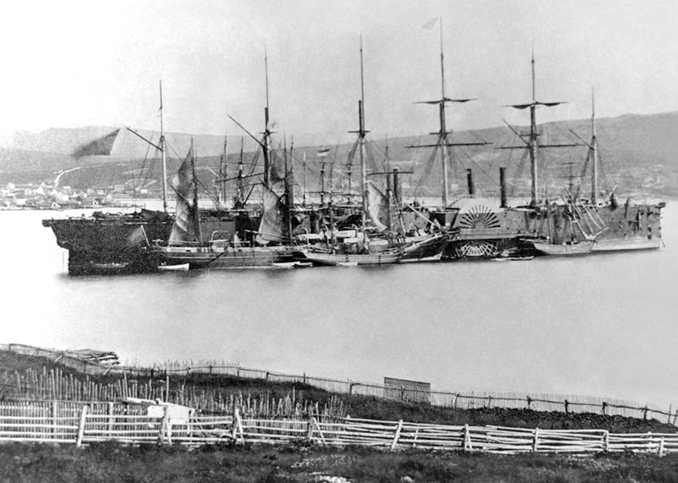 Great Eastern at Hearts Content, July 1866